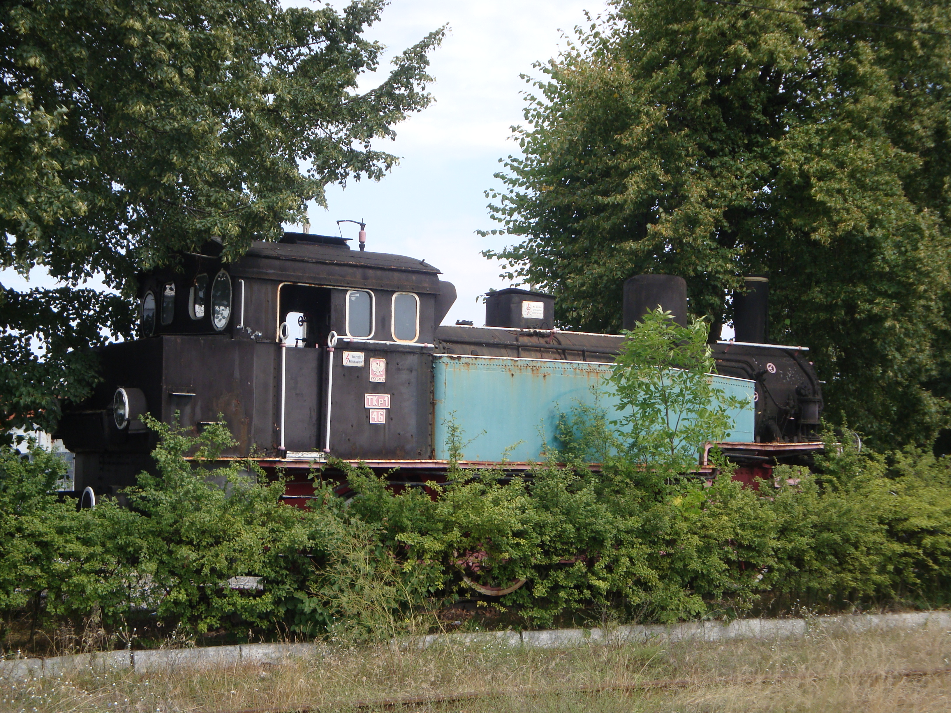 Parowóz TKp1-46 w Bydgoszczy. This photo was taken during Railway Wikiexpedition 2013 set up by Wikimedia Polska Association. You can see all photographs in category Wikiekspedycja kolejowa 2013. English | Polski | +/−